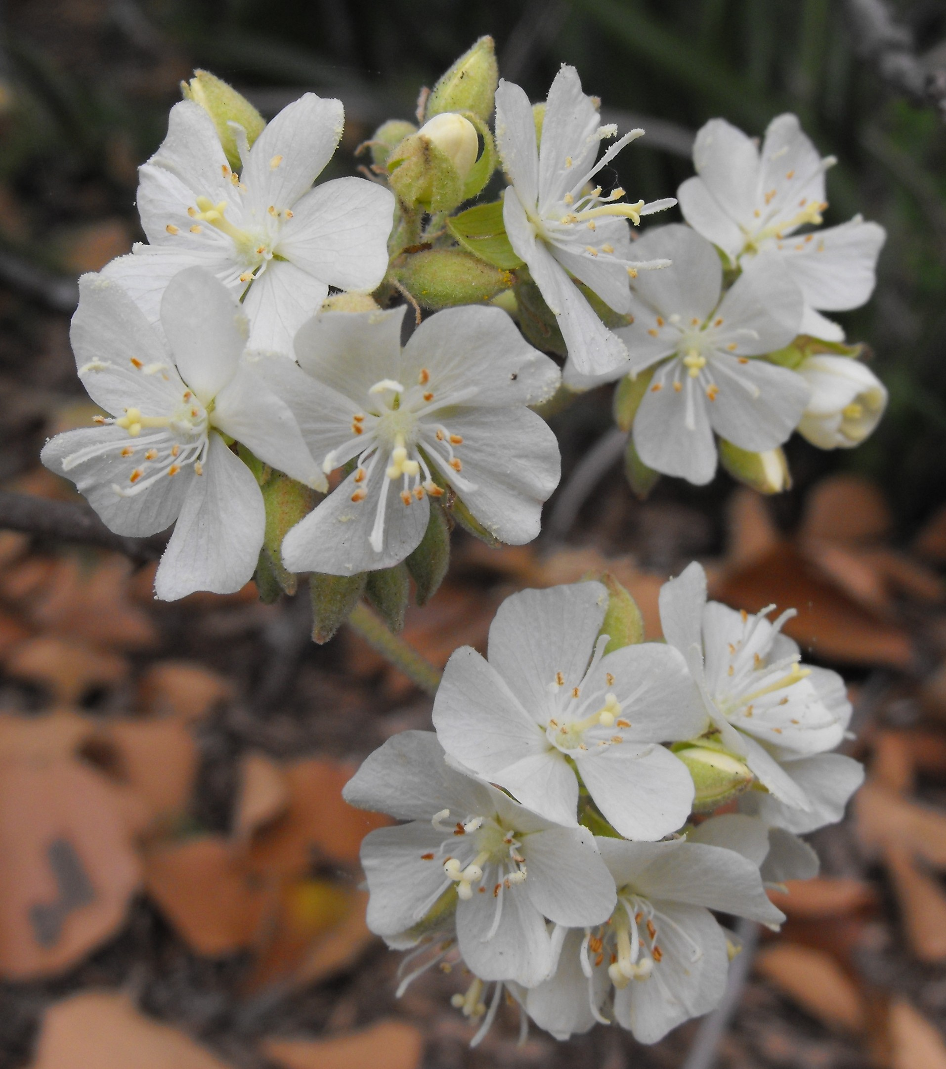 Dombeya spectabilis at Quail Botanical Gardens in Encinitas, California, USA. Identified by sign.